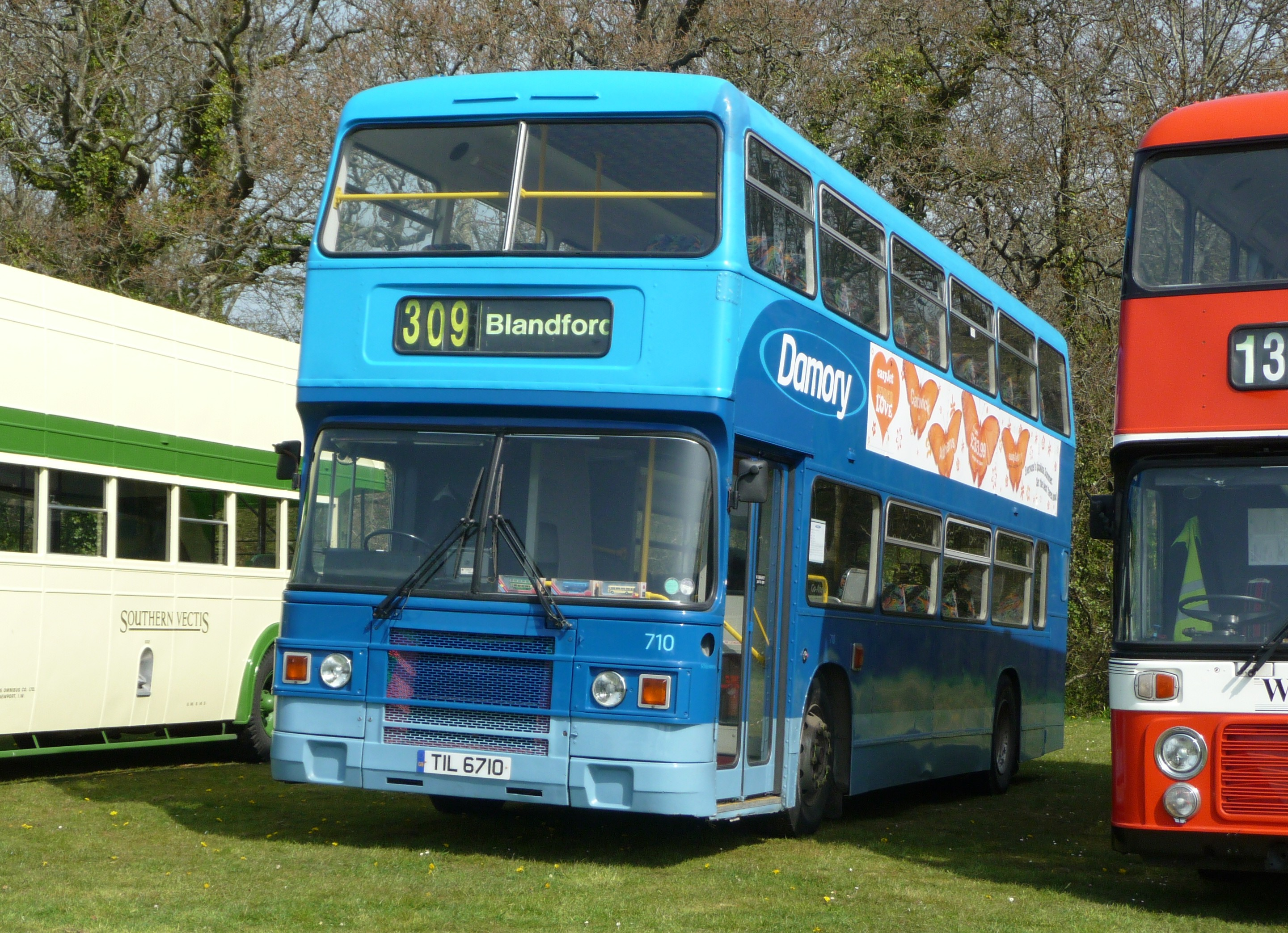 Seen at the 2010 Bustival event, held by Southern Vectis, at Havenstreet, Isle of Wight, railway station showground. Damory Coaches 710 (TIL 6710), a Leyland Olympian. It was new to Southern Vectis, hence its attendance at the event.